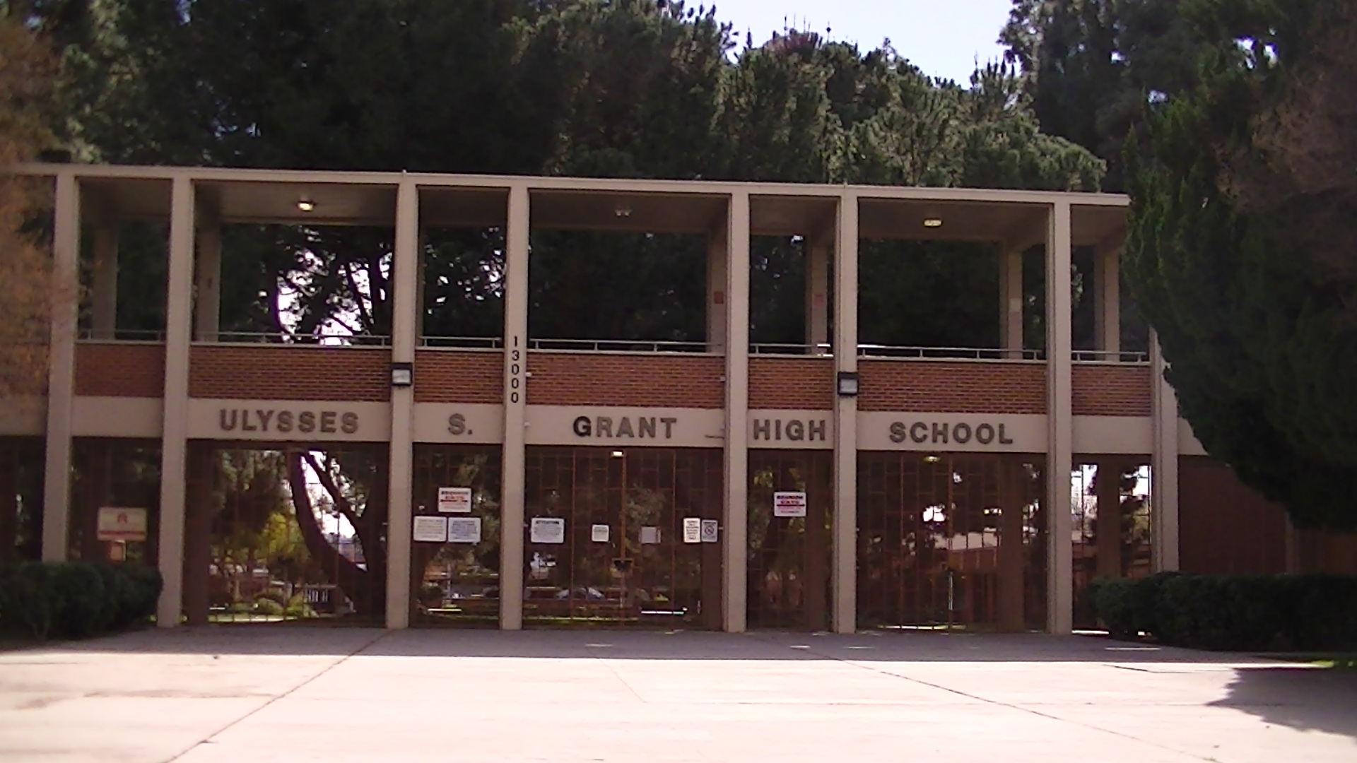 Front of Ulysses S. Grant High School, Valley Glen, Los Angeles, California